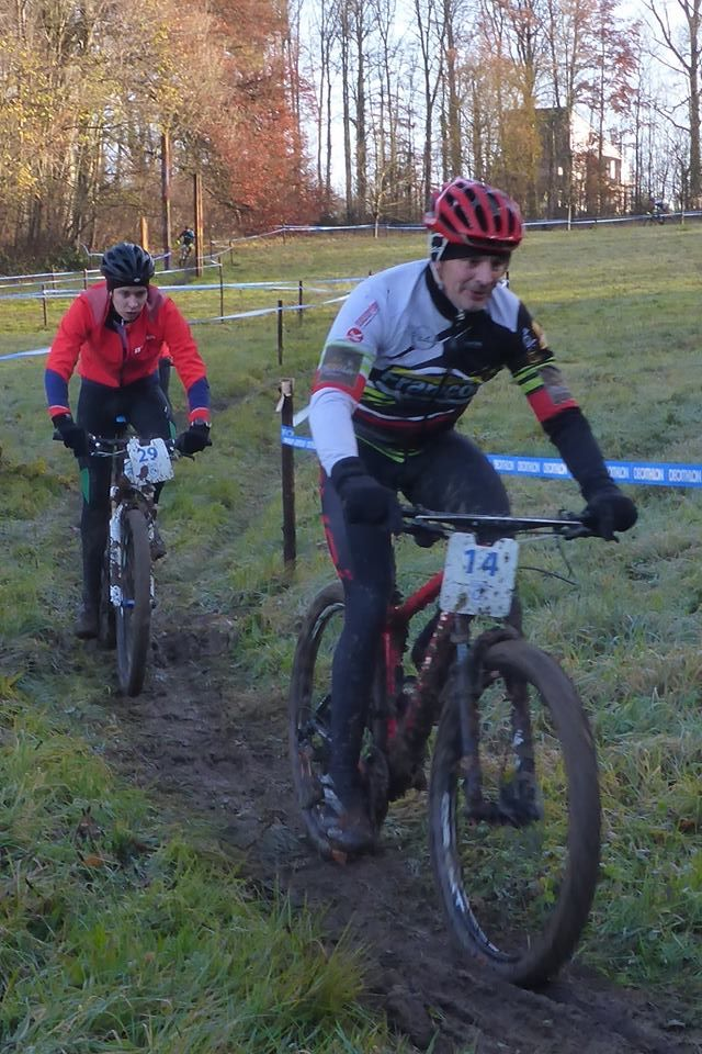 pic of mt bikers in winter dress